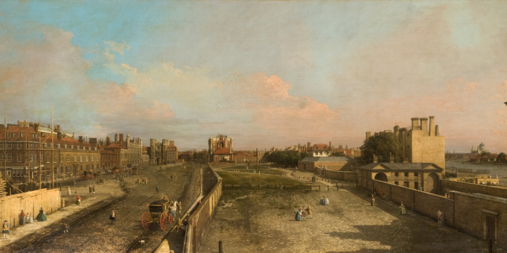 View of Whitehall, looking North, with the corner of Richmond House and its stables, Montagu House and a distant view of St. Paul’s; in the centre, the wall separating Whitehall from the Privy Garden and the Banqueting House; to the left building works on the corner of what is now Parliament Street, beyond the Holbein Gate and Northumberland House.